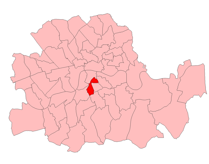 A map of Southwark Central constituency seen within the London area.